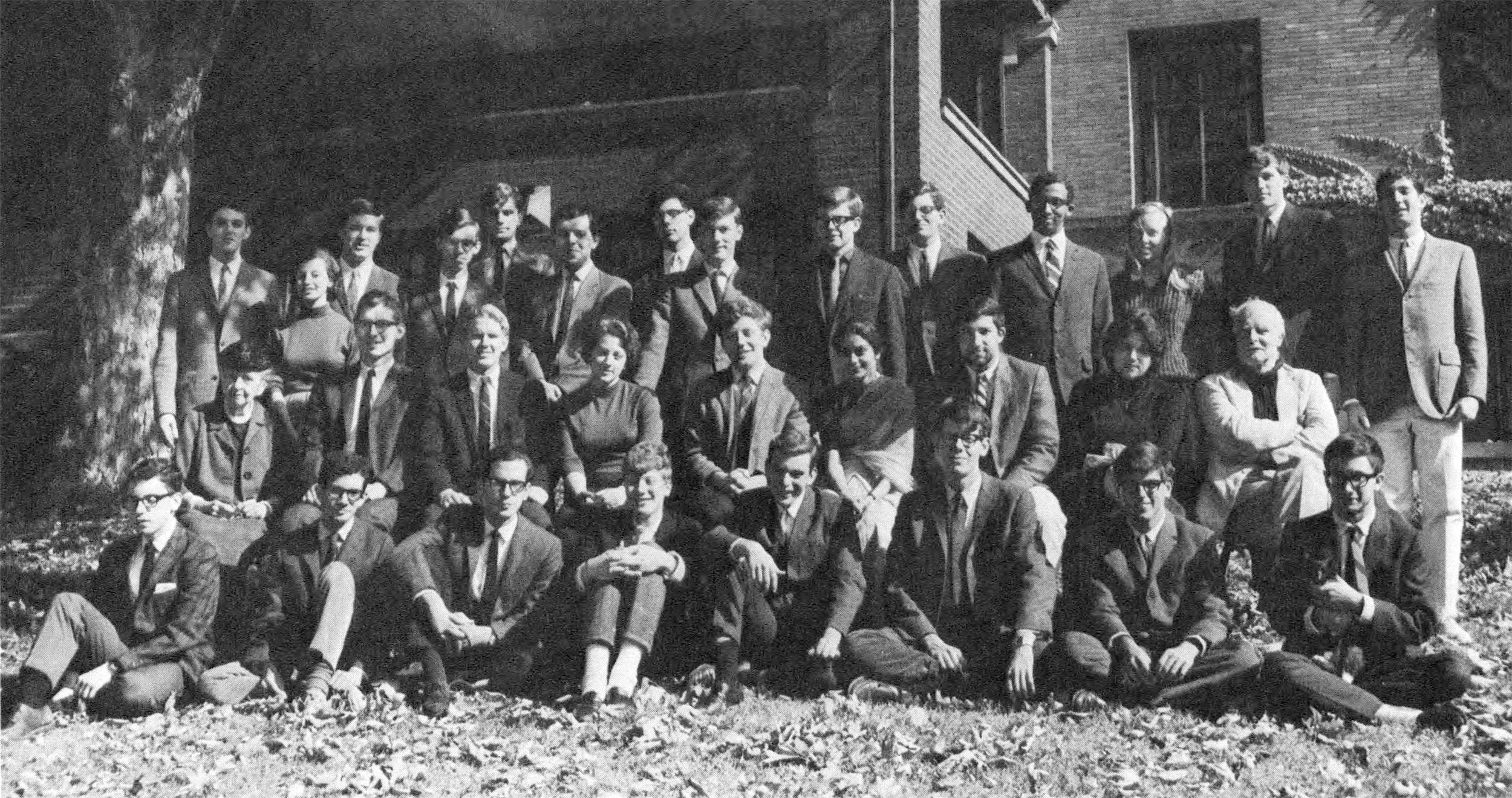 Photograph of Telluride House membership in 1964-1965. Image from The Cornellian Yearbook, 1965. Digitized on the Hathi Trust and released in the public domain (Hathi Trust: coo.31924078965880). Accompanying text: TELLURIDE ASSOCIATION CORNELL 1910 Front Row: David Bolotin, Treasurer; Nathan Tarcov; Lincoln Bergman; Robert Dawidoff, Secretary; Martin Sitte; Alex Gold; Michael Ormond; Barry Weller; Irving. Row Two: Miss Frances Perkins; Brian Kennedy; Norman Brokaw, President; Barbara Herman; Philip Blair; Gayatri Chakravorty; Mark Merin; Arlene Eisen; Professor H P Grice. Back Row: Martin Pearlman, Clare Selgin, Gabor Brogyanyi, Charles Fairbanks, Michael Ames, Costis Papadantonakis, Fred Baumann, William Wallace, Anthony Pugh, Charles Bazerman, Eugene Holman, Sally Philips, Andrew Kull, Clifford Orwin. Absent: Michael Echeruo; David Fleiss; William Galston; Paul Wolfowitz, Vice-President; Walter Zukowski.